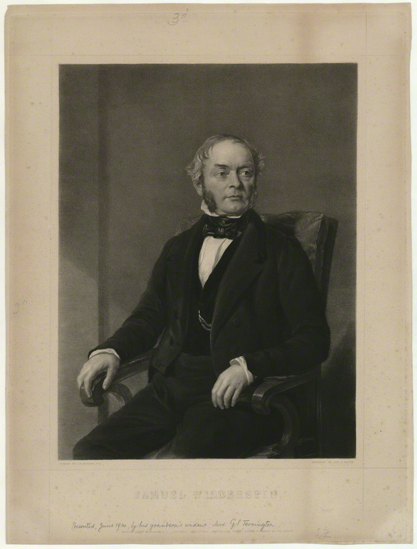 Portrait of Samuel Wilderspin (1791–1866), English educationist.